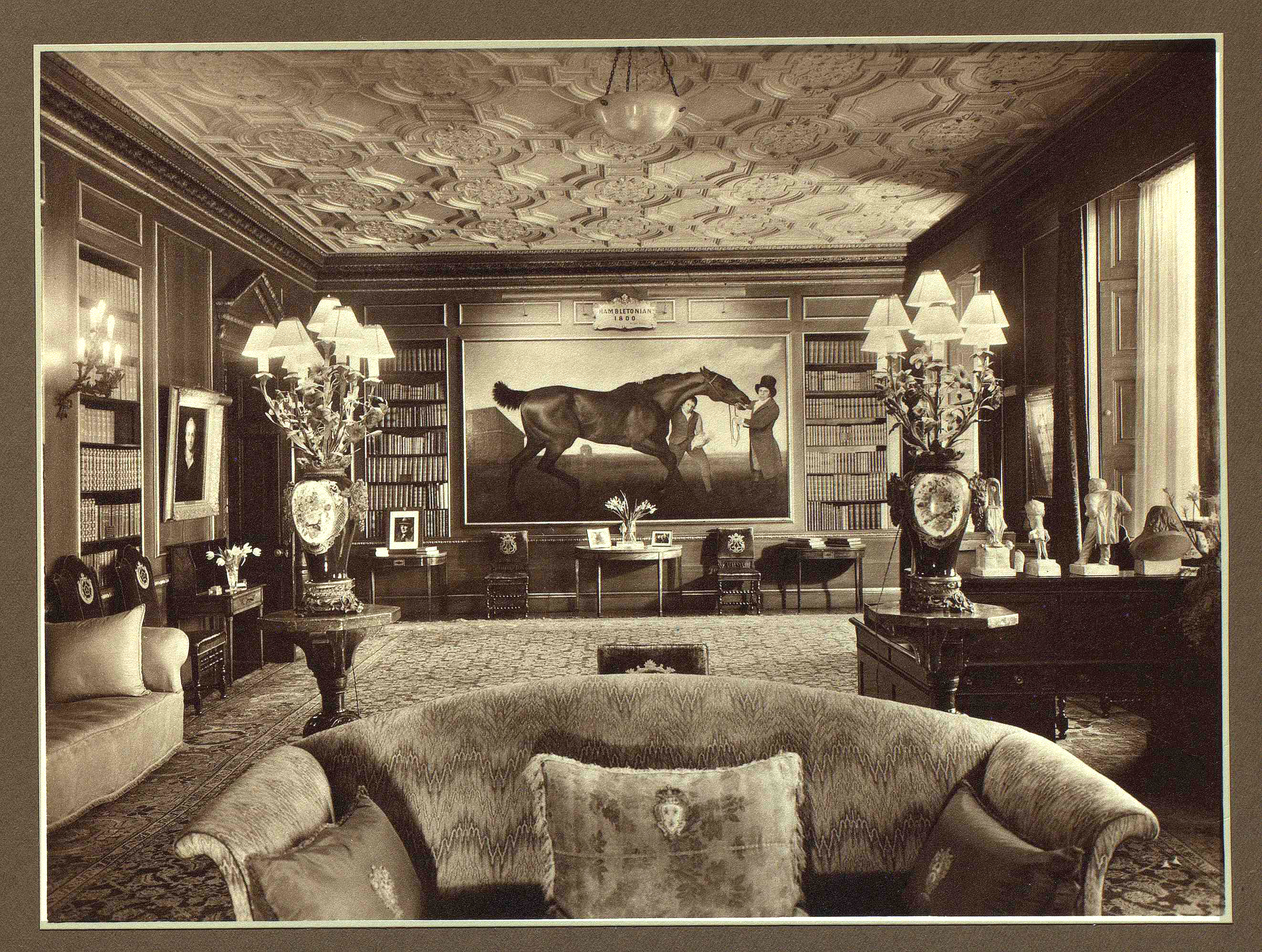 Creator: unknown Date: 1920s Original Format: Photographic print Description: Interior of Londonderry House, Park Lane, London c.1920s. Note the painting of 'Hambletonian, Rubbing Down' by Stubbs, which now hangs in Mount Stewart, County Down. PRONI Ref: D4567/2/23 Copying and copyright: Please For Copy Orders, contact